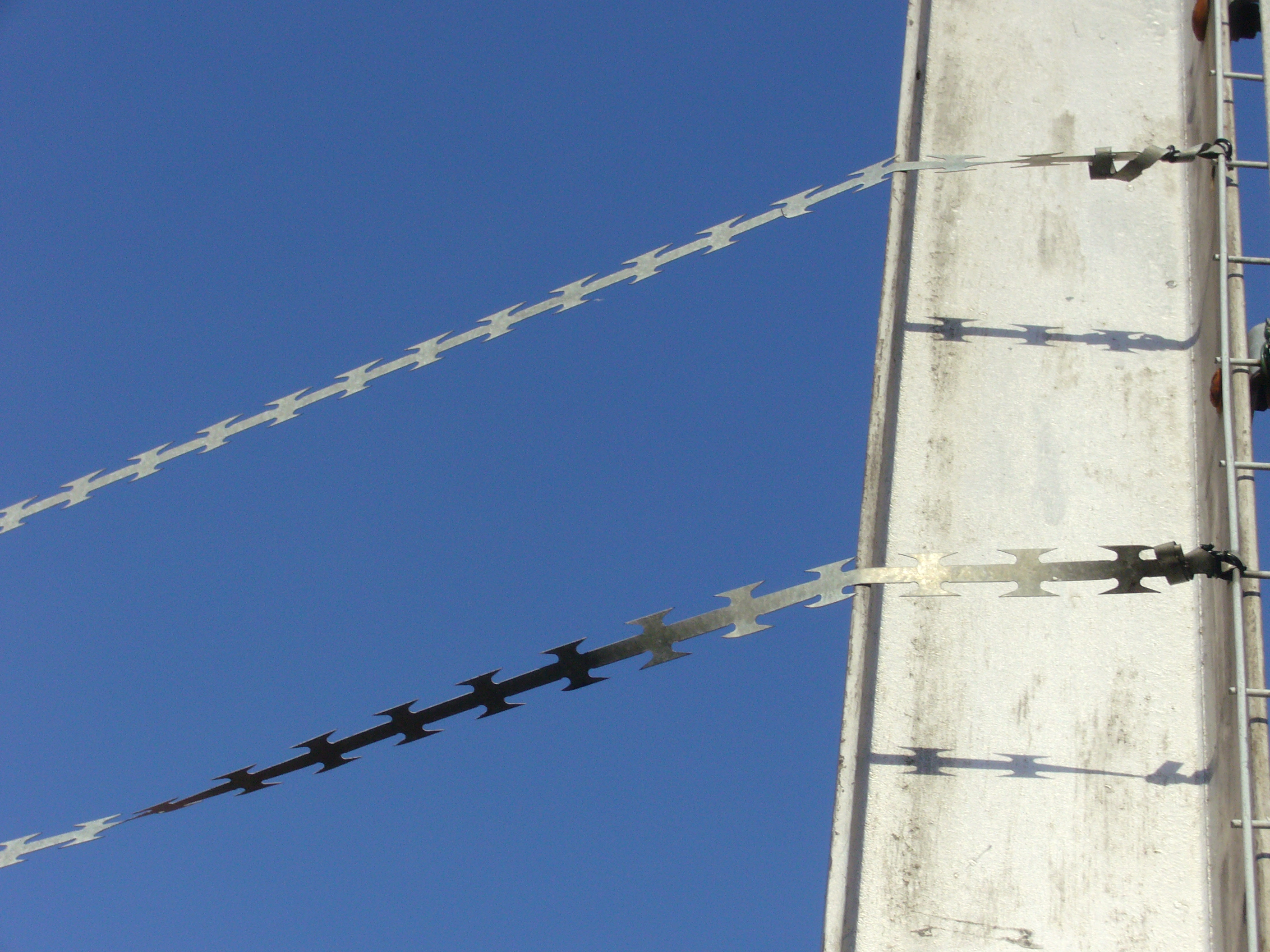 Section of barbed tape. This really is barbed tape and not razor-wire. Note the total absence of a central reinforcement wire running down the middle. Required attribution is: Photo by Tom Oates.